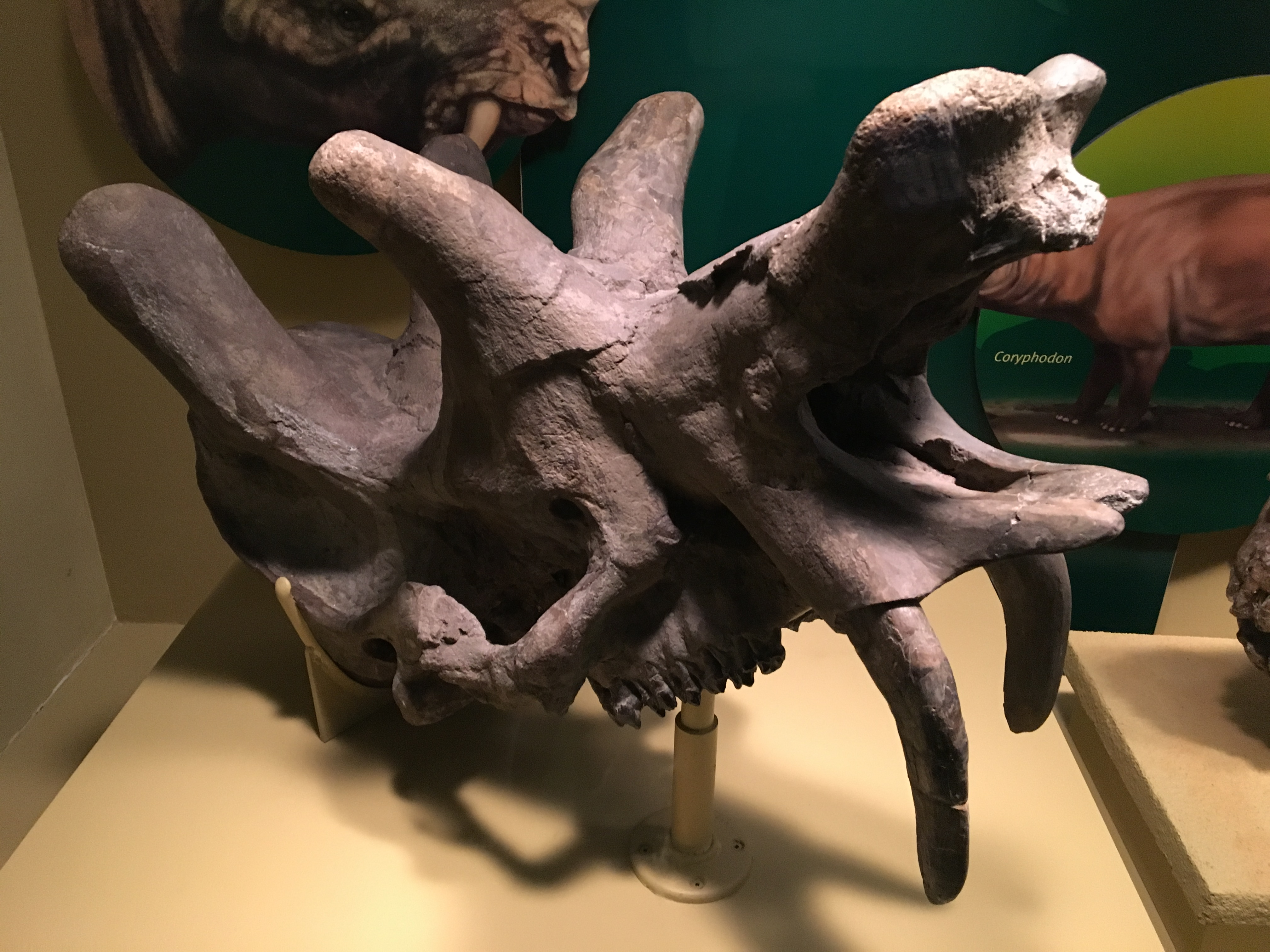 Fossil skull of Eobasileus on display at the Field Museum of Natural History, Chicago, IL